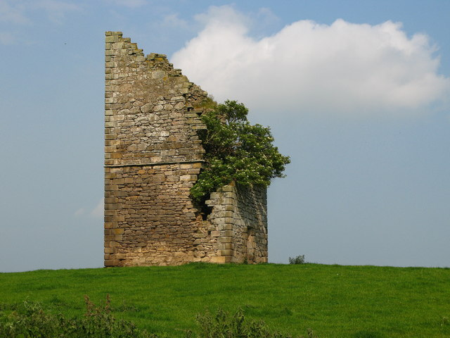 Bannockburn House Doocot A 17th century lectern doocot stands 250m NE of Bannockburn House. The date 1698 is incised in the lintel above the doorway, in the S wall. Above the lintel is a stone dated 1768. It may be that the doocot was reconstructed in 1768, incorporating a number of carved stones of 17th century date which are in secondary use.